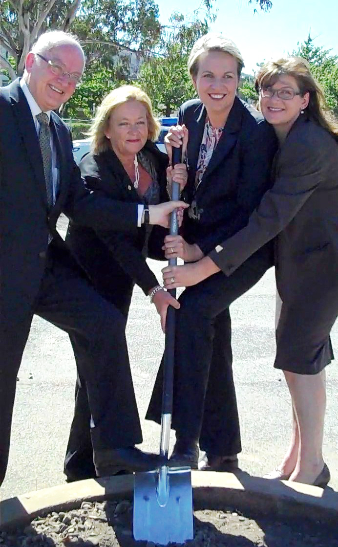 Turned the first sod on the $11.65 million development in Braddon. The development will be made up of 42 one- and two-bedroom appartments, 20 of which are being funded by the Federal Government's Nation Building Program, with the ACT Government funding the remainder. A quarter of the units will go to public housing, a quarter to be transferred to Community Housing Canberra Affordable Housing for management, a quarter will be sold and a the remaining quarter will be rented out at 75 per cent of the market rate.